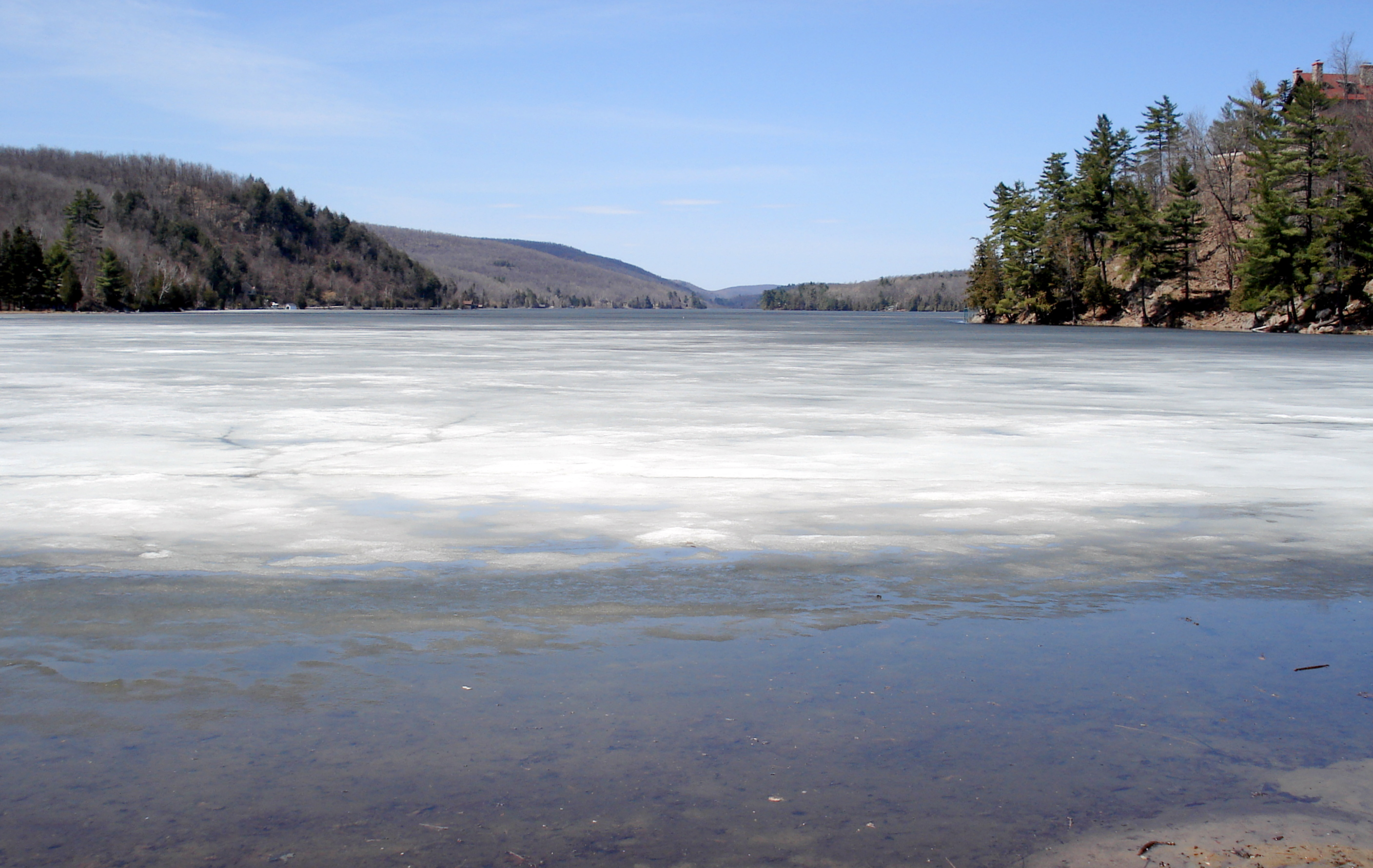 Meech Lake as seen from O'Brien Beech in Gatineau Park, Canada.